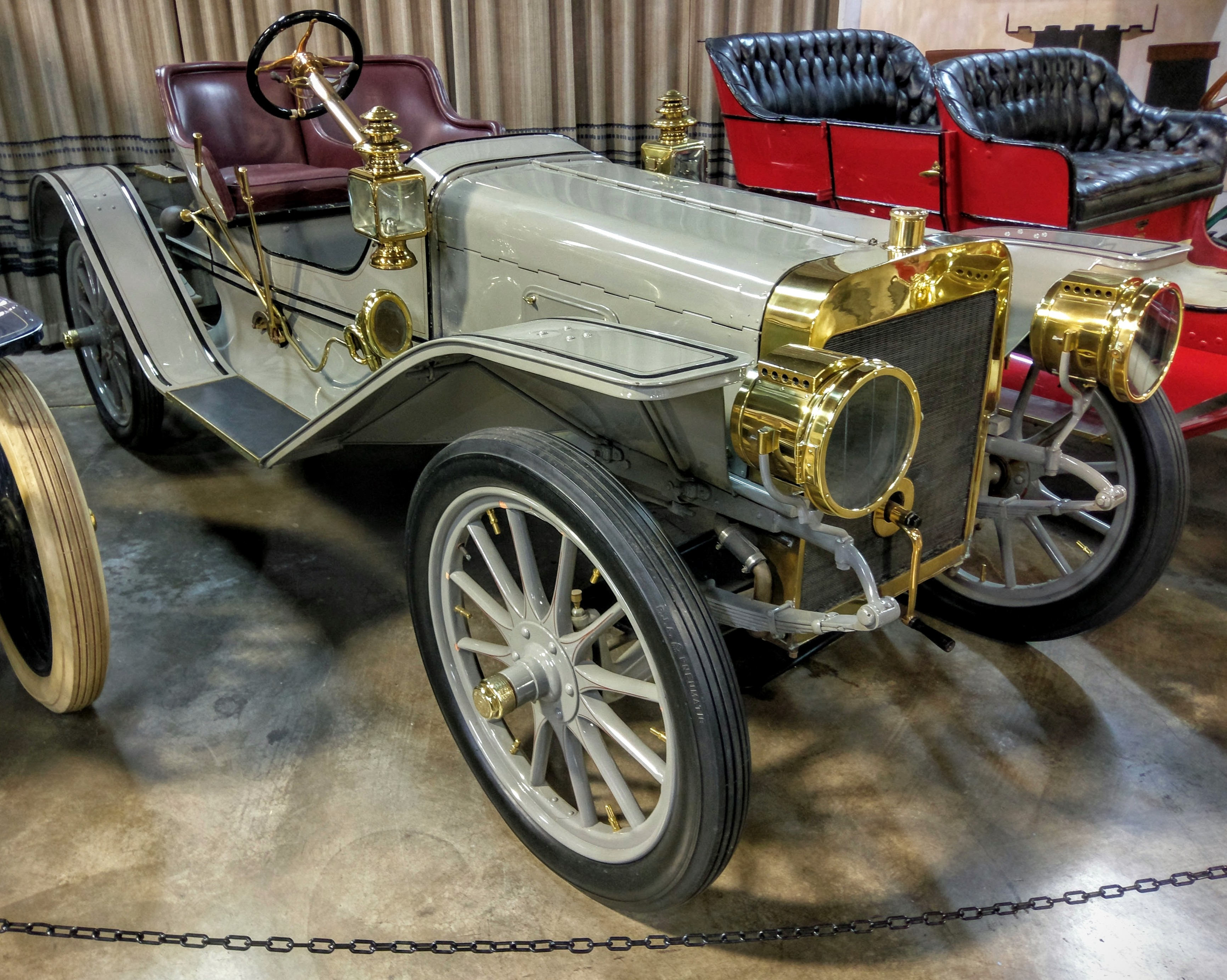 On display at the California Automobile Museum. Photo by Jim Heaphy.